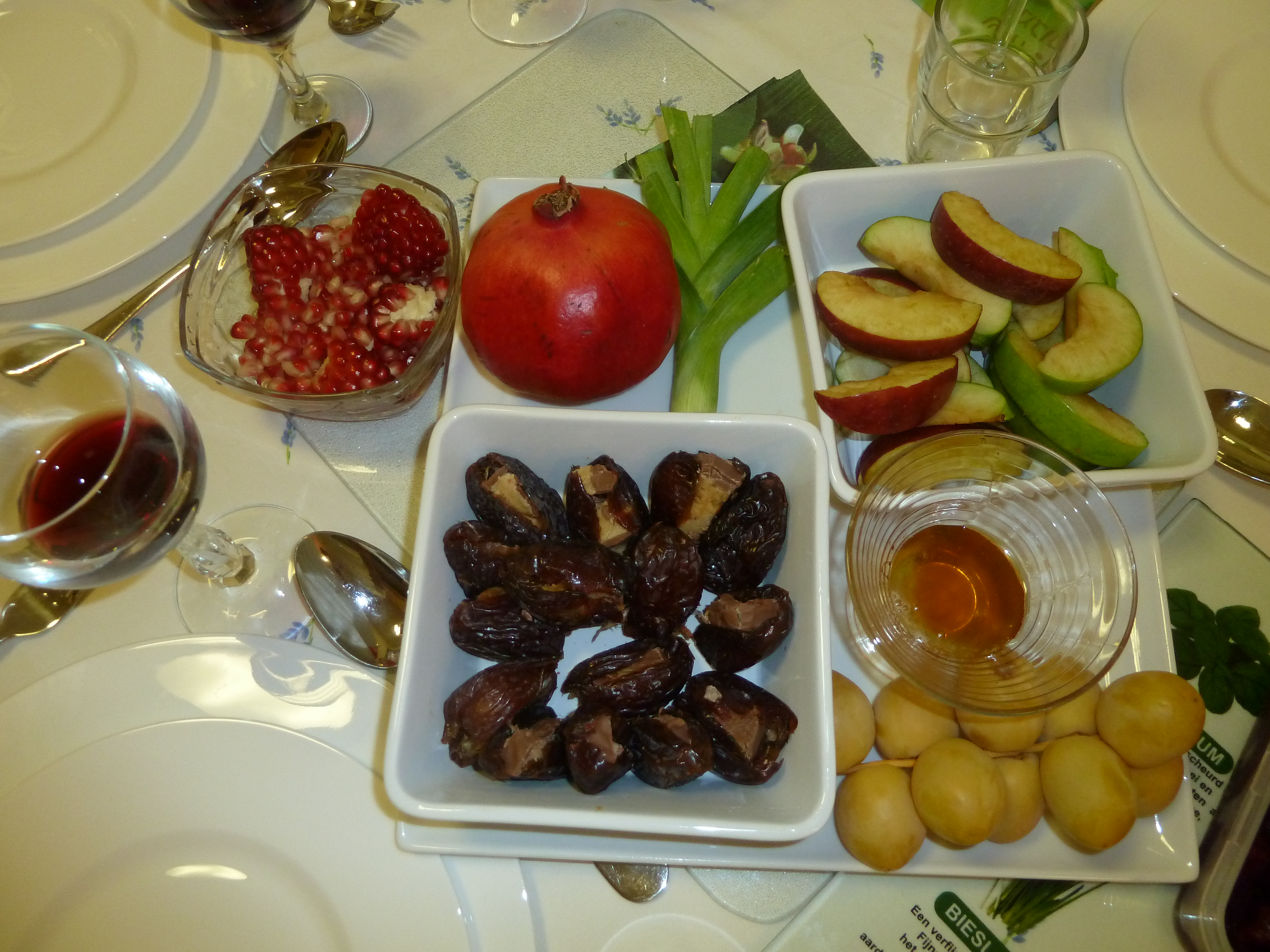 Rosh Hashanah Seder